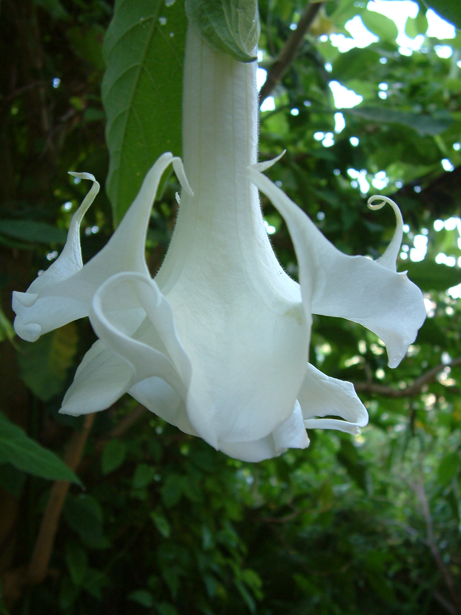 Brugmansia hybrid, double flowered (not B. suaveolens)